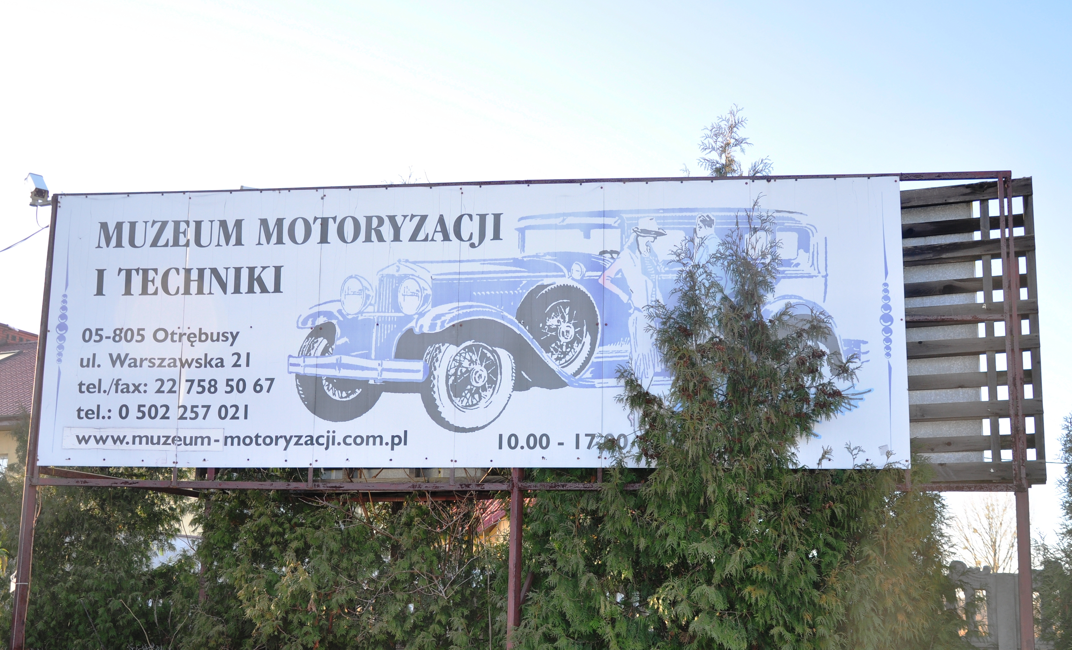 Motor Museum Otrebusy, Poland